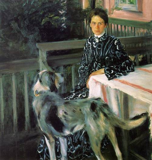 the artist's wife